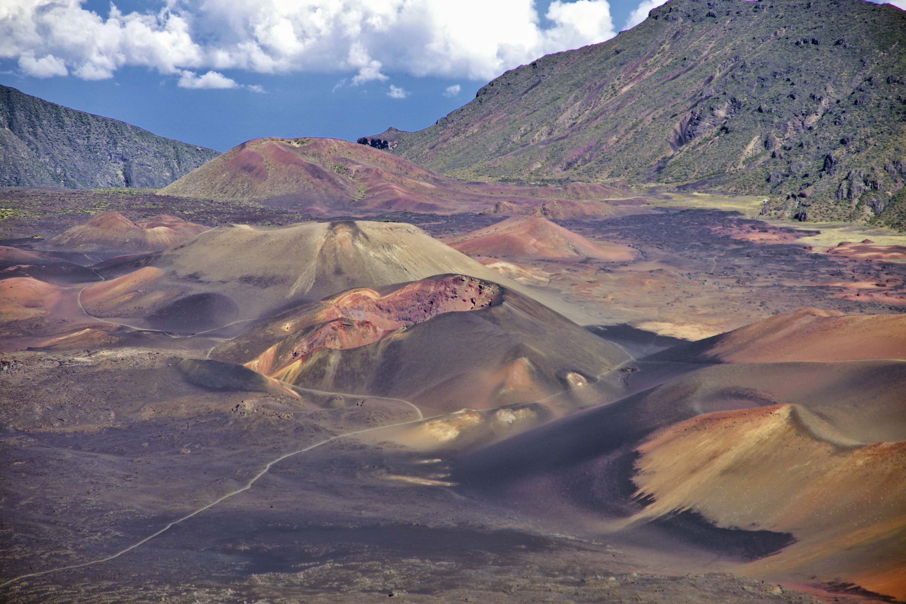 Haleakala National Park, Maui, Hawaii